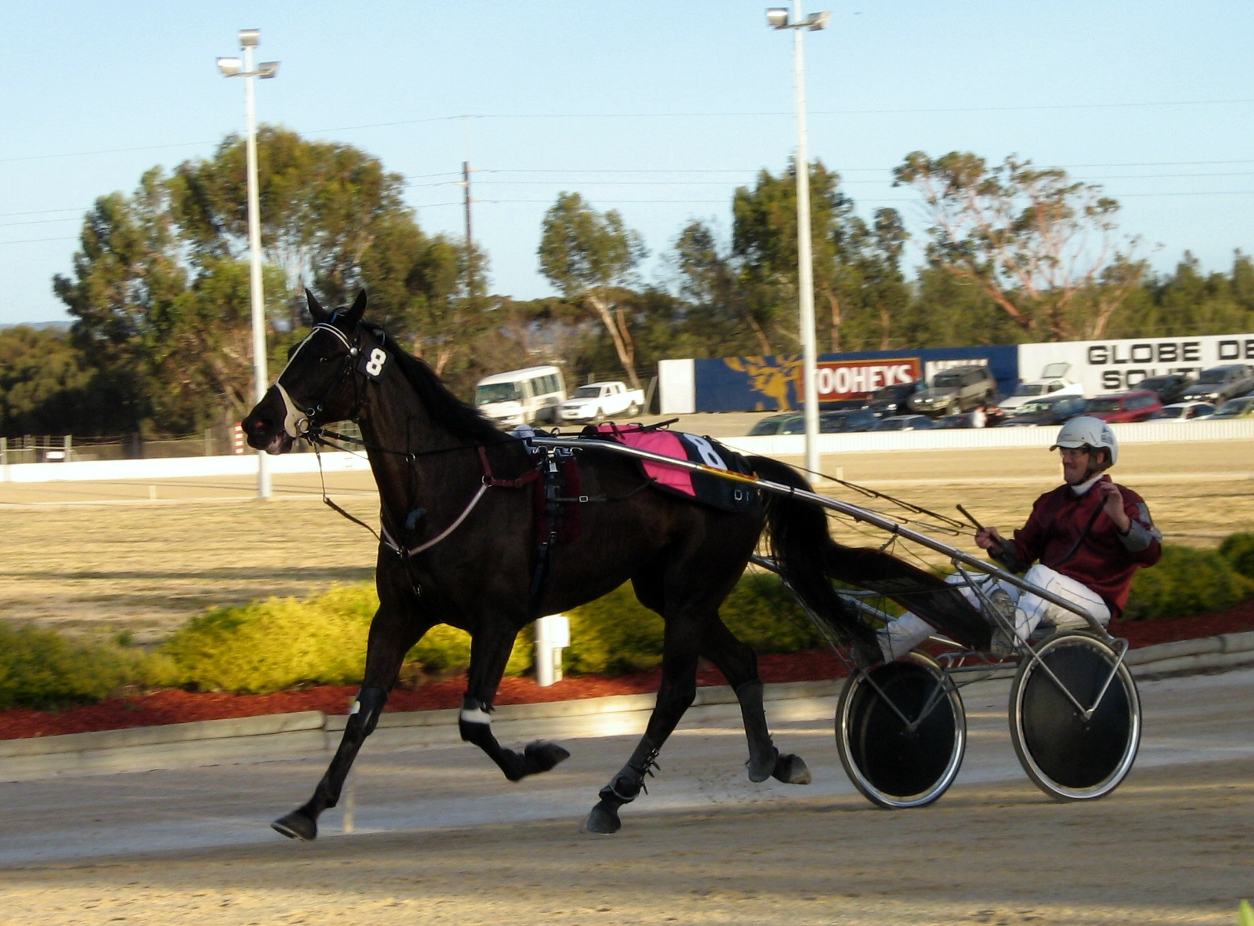 Uncle Petrika immediately after winning the 2007 Interdominion Trotters final at Globe Derby Park, South Australia